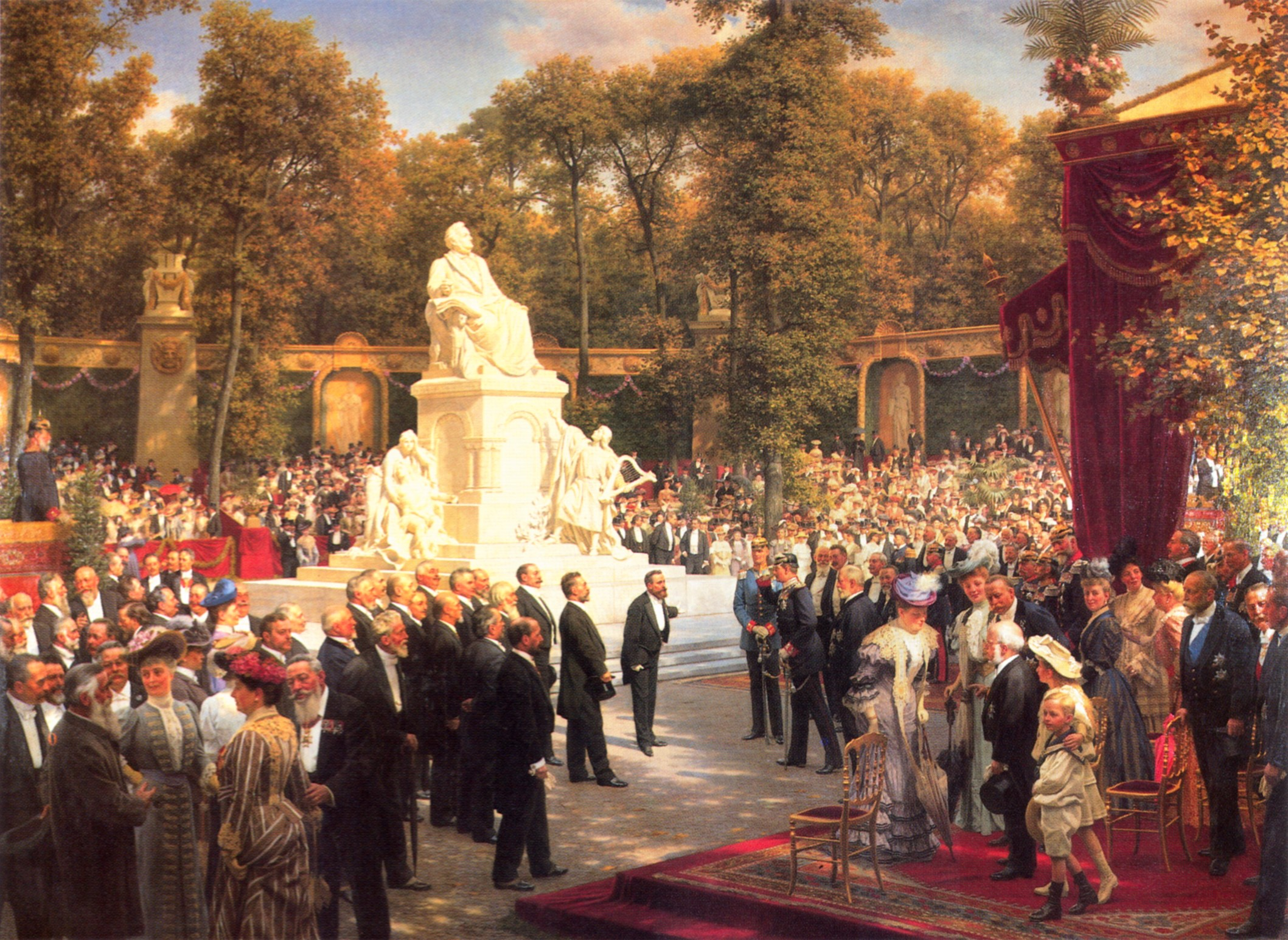 Anton von Werner: The Unveiling of the Memorial to Richard Wagner in Berlin